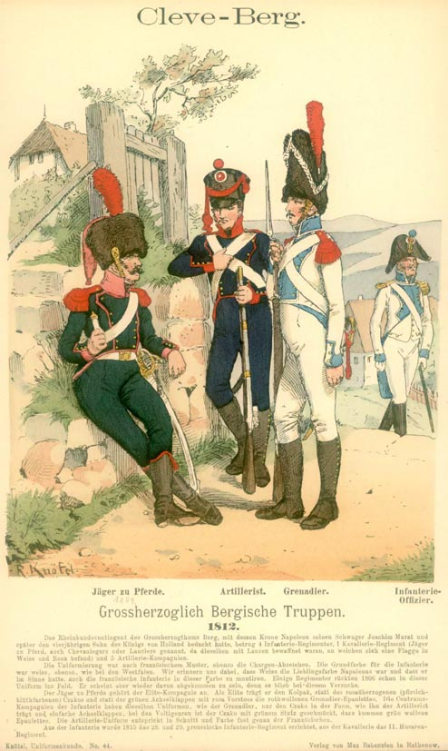 Grand Duchy of Cleve/Berg: Jäger z. Pf., Artilleryman Grenadier. Infanty-Officer. 1812